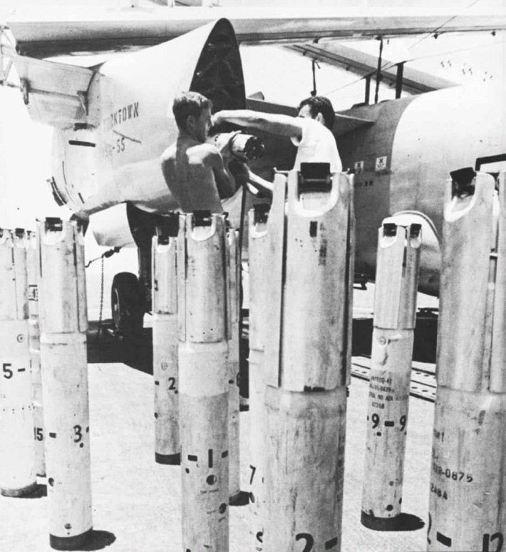 Sonobuoys being loaded on a Grumman S-2E Tracker of Carrier Anti-Submarine Air Group 55 (CVSG-55) aboard the U.S. anti-submarine aircraft carrier USS Yorktown (CVS-10). CVSG-55 was assigned to the Yorktown from 1961 to 1968. Its Tracker squadrons were VS-23 Black Cats, and VS-25 Golden Eagles.